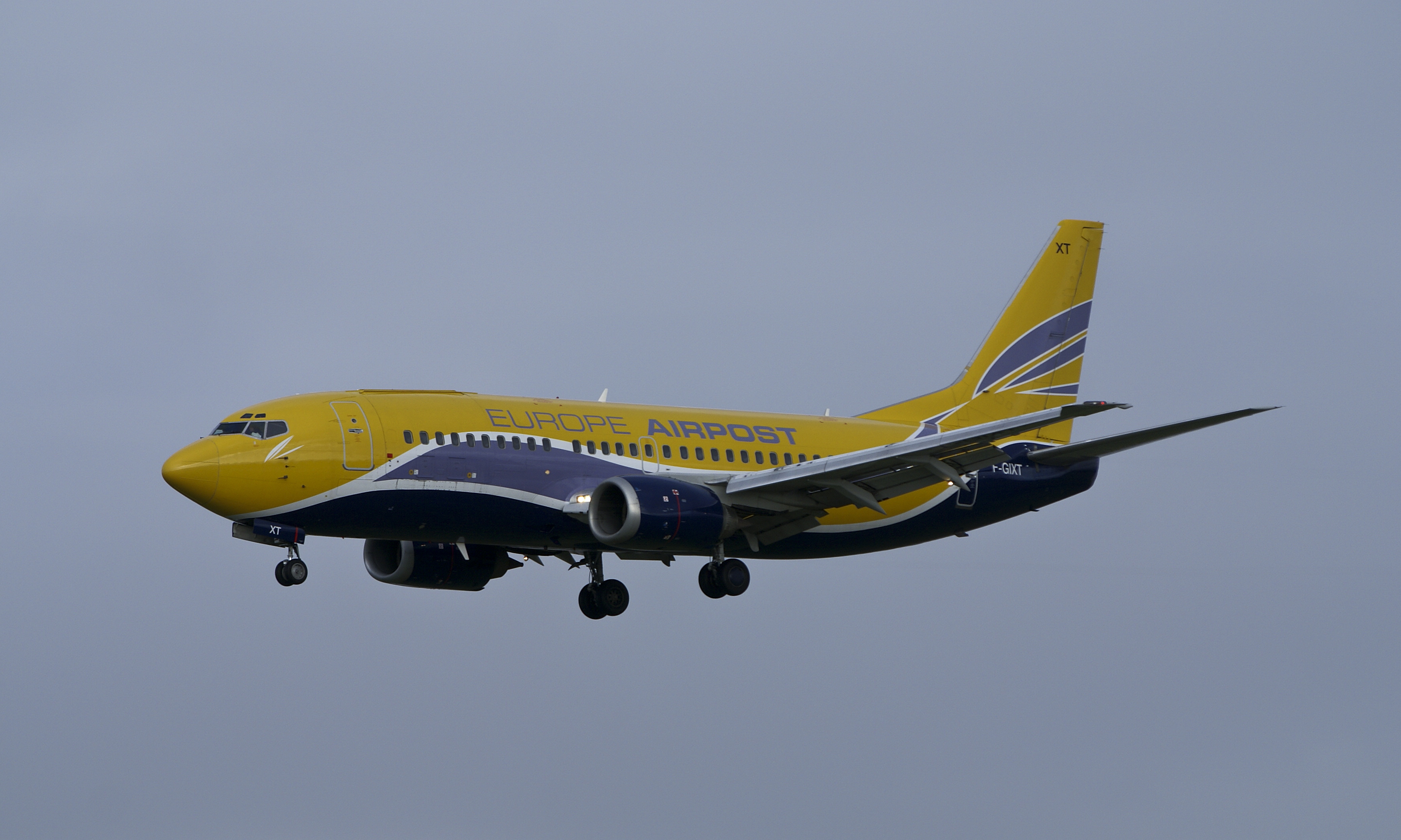 Europe Airpost Boeing 737-300 landing in Dublin Airport